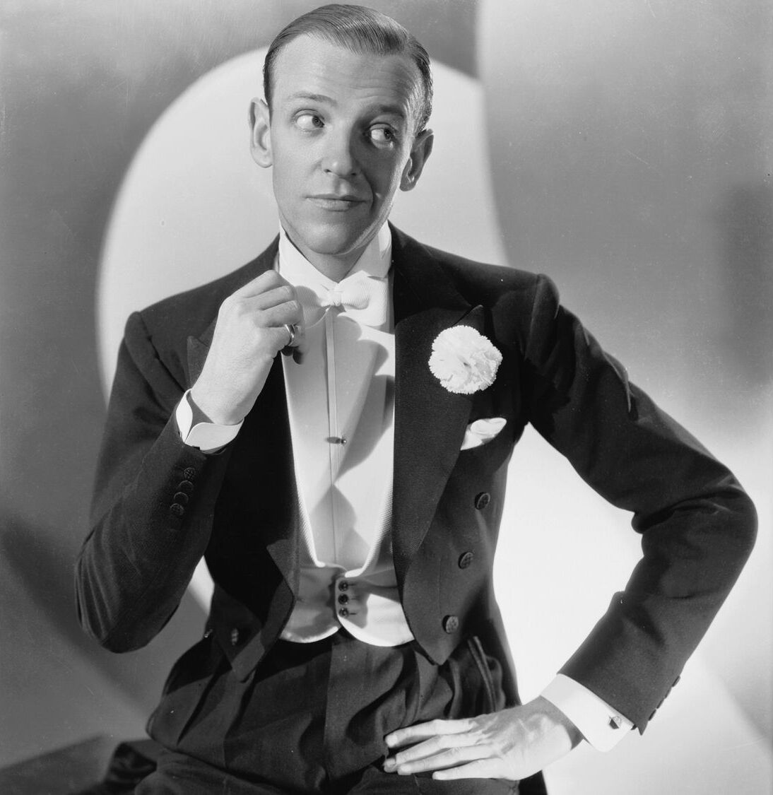 Studio publicity portrait for film You'll Never Get Rich (1941).